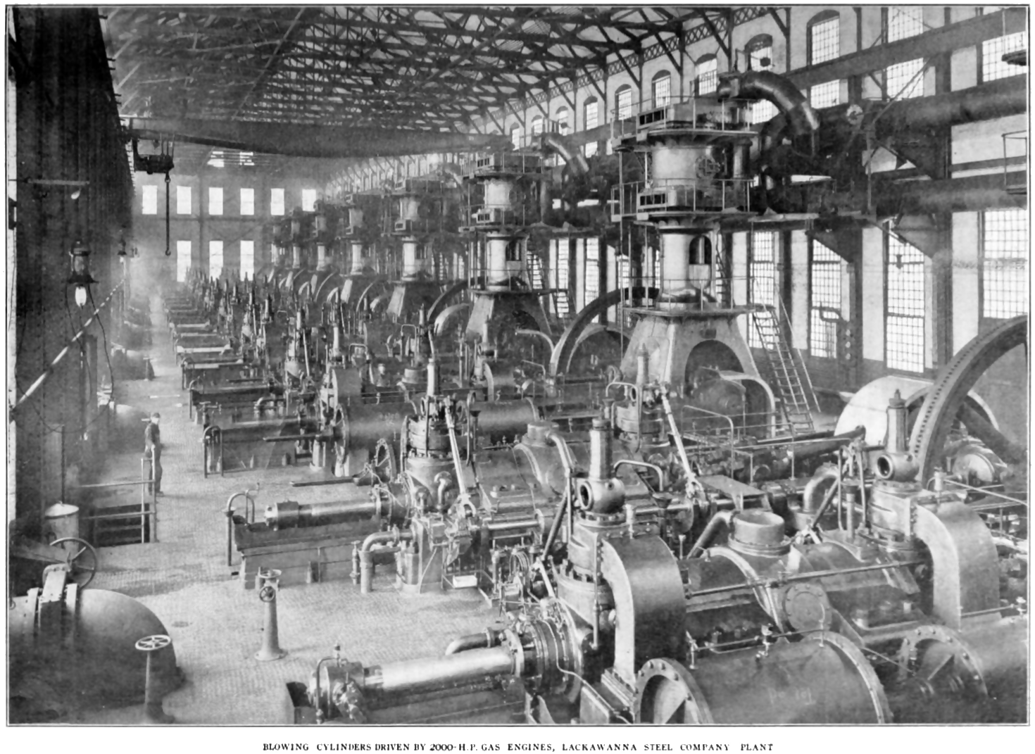 Blast furnace blowing engines, in 1907, at the Lackawanna Steel Company.